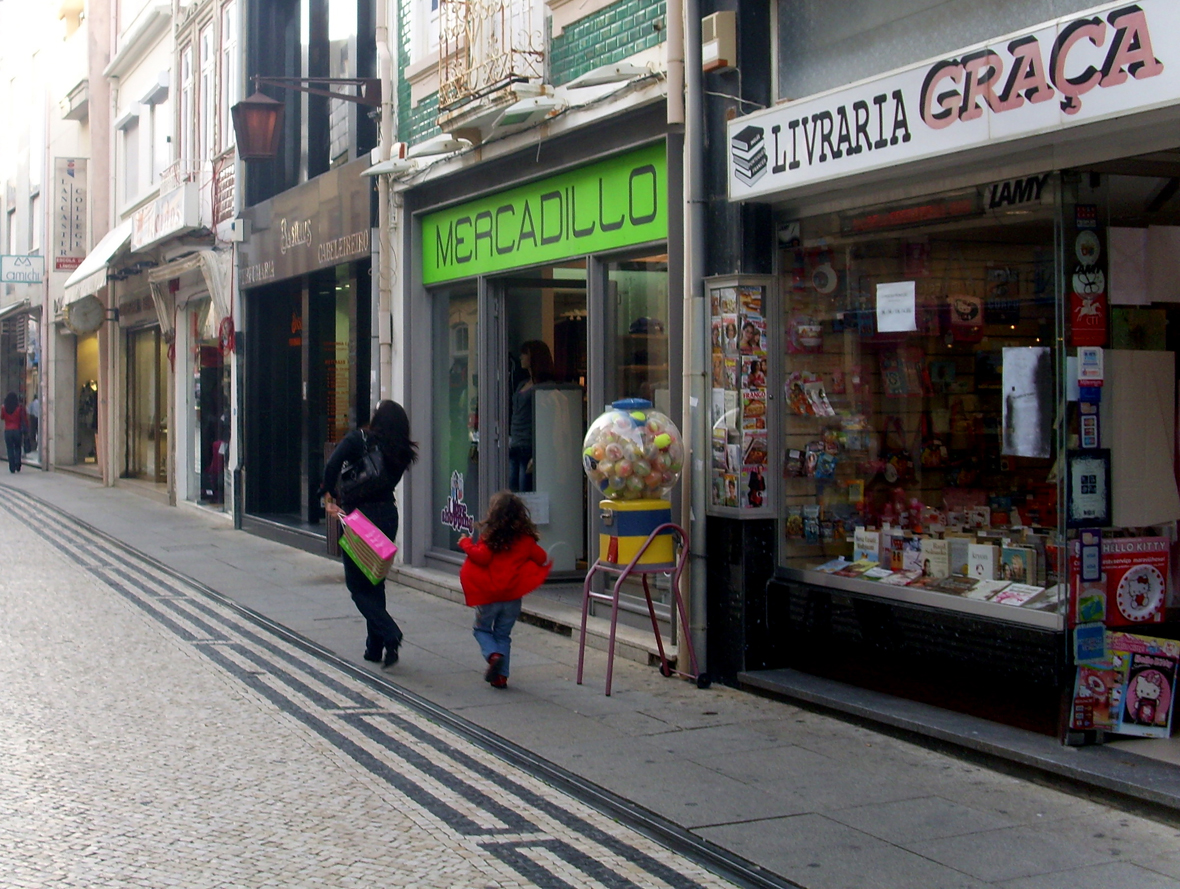 Rua da Junqueira (traditional shopping street) in Povoa de Varzim, Portugal